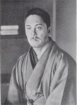 Japanese novelist Hirotsu Ryurō, before 1928.